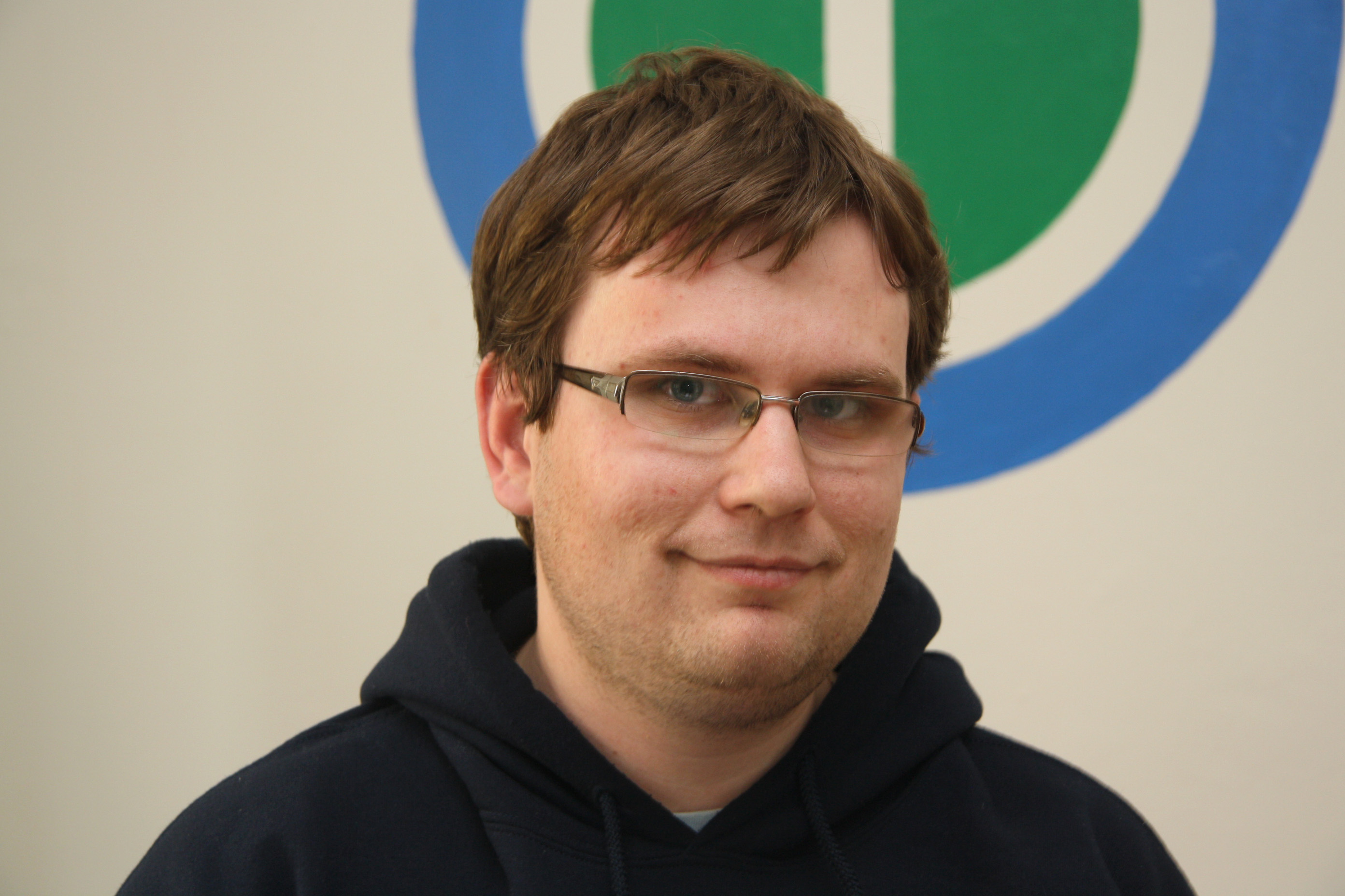 Martin Kotačka, member of Wikimedia Czech Republic Audit Committee